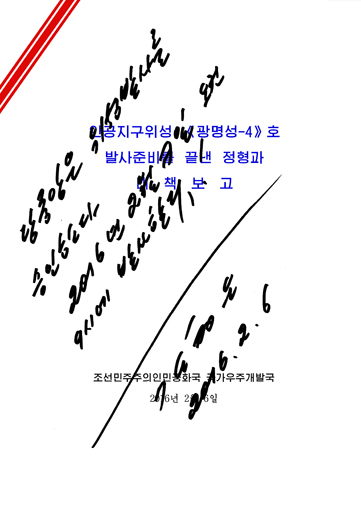 Original caption: “Kim Jong Un, supreme leader of the Korean people, issued an autograph order on launching earth observation satellite Kwangmyongsong-4 on February 6, Juche 105 (2016).”